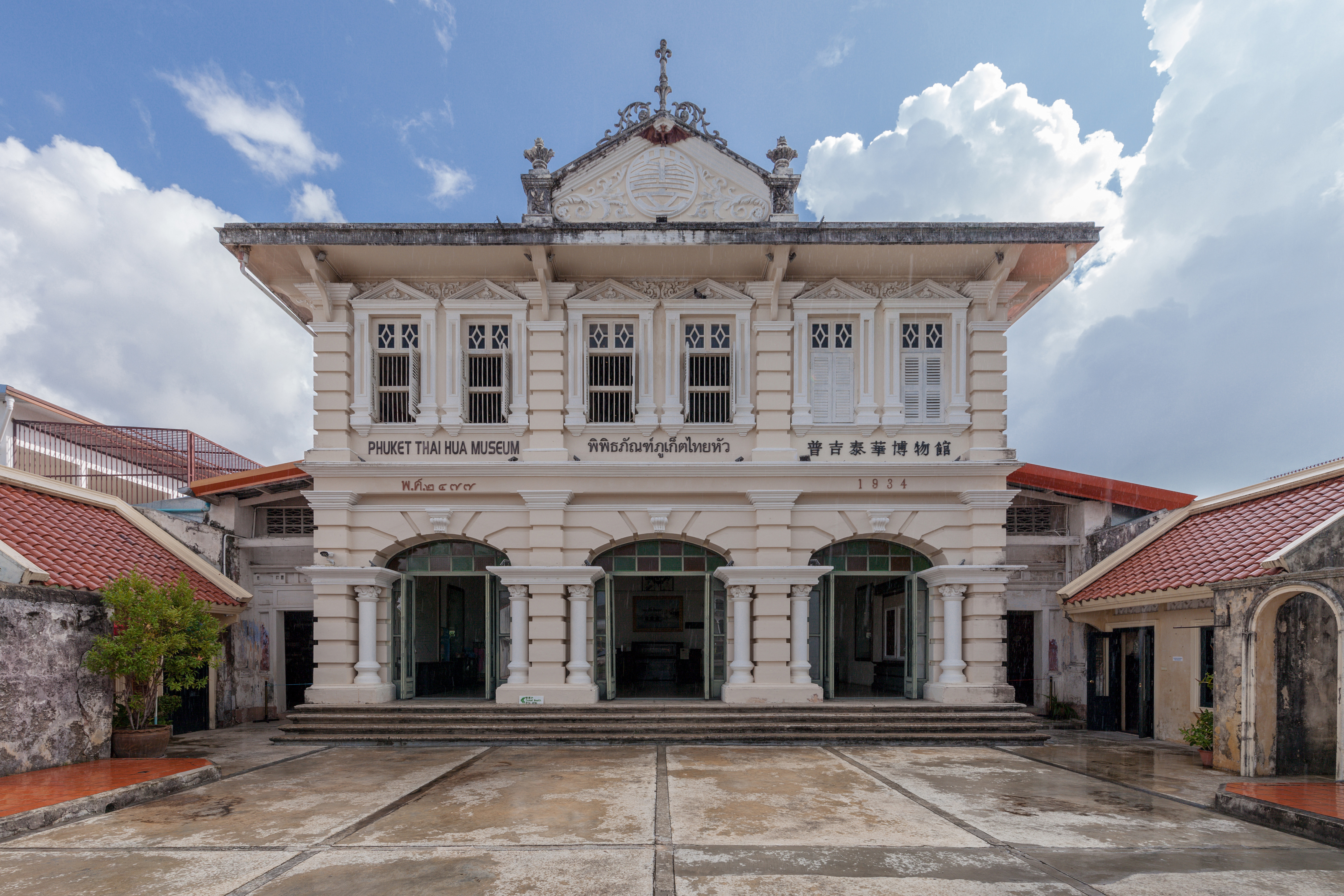 Phuket Thai Hua School, Mueang Phuket District, Phuket Province, southern Thailand.